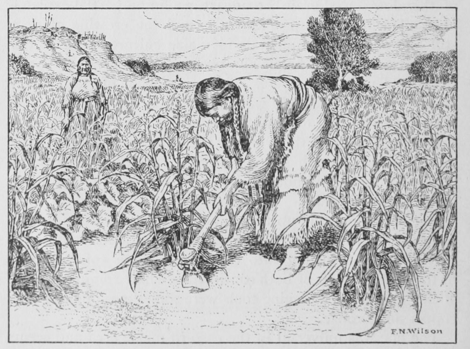 Fig. 7. Cultivating Maize and Squashes with a Bone Hoe. Hidatsa Indians